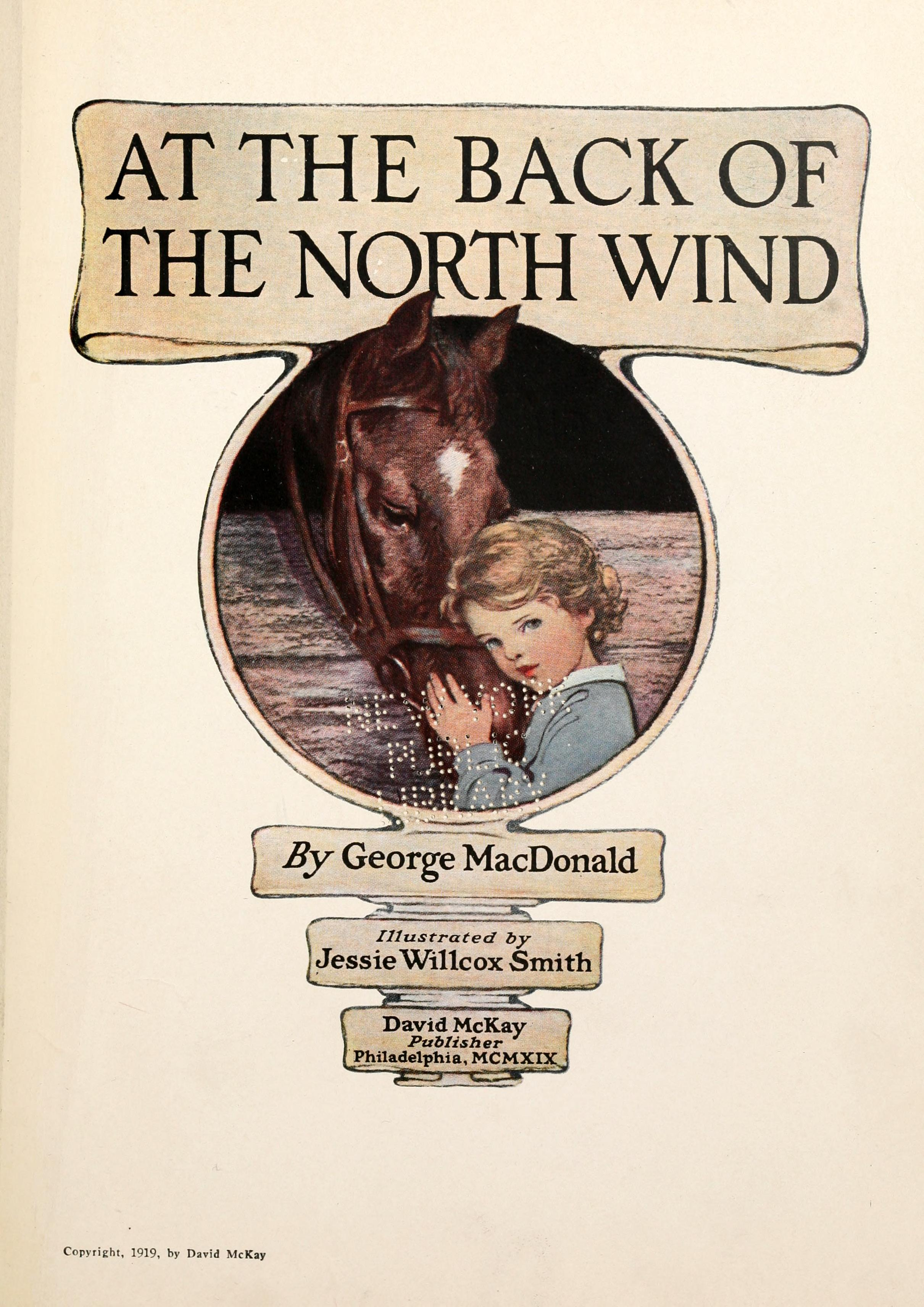 Title: At the back of the North Wind Year: 1919 (1910s) Authors: MacDonald, George, 1824-1905 Smith, Jessie Willcox, 1863-1935, ill Subjects: Fairy tales Publisher: Philadelphia : D. McKay Text Appearing Before Image: ' Text Appearing After Image: By George MacDonald illustrated by Jessie Willcox Smith At the back of the North Wind